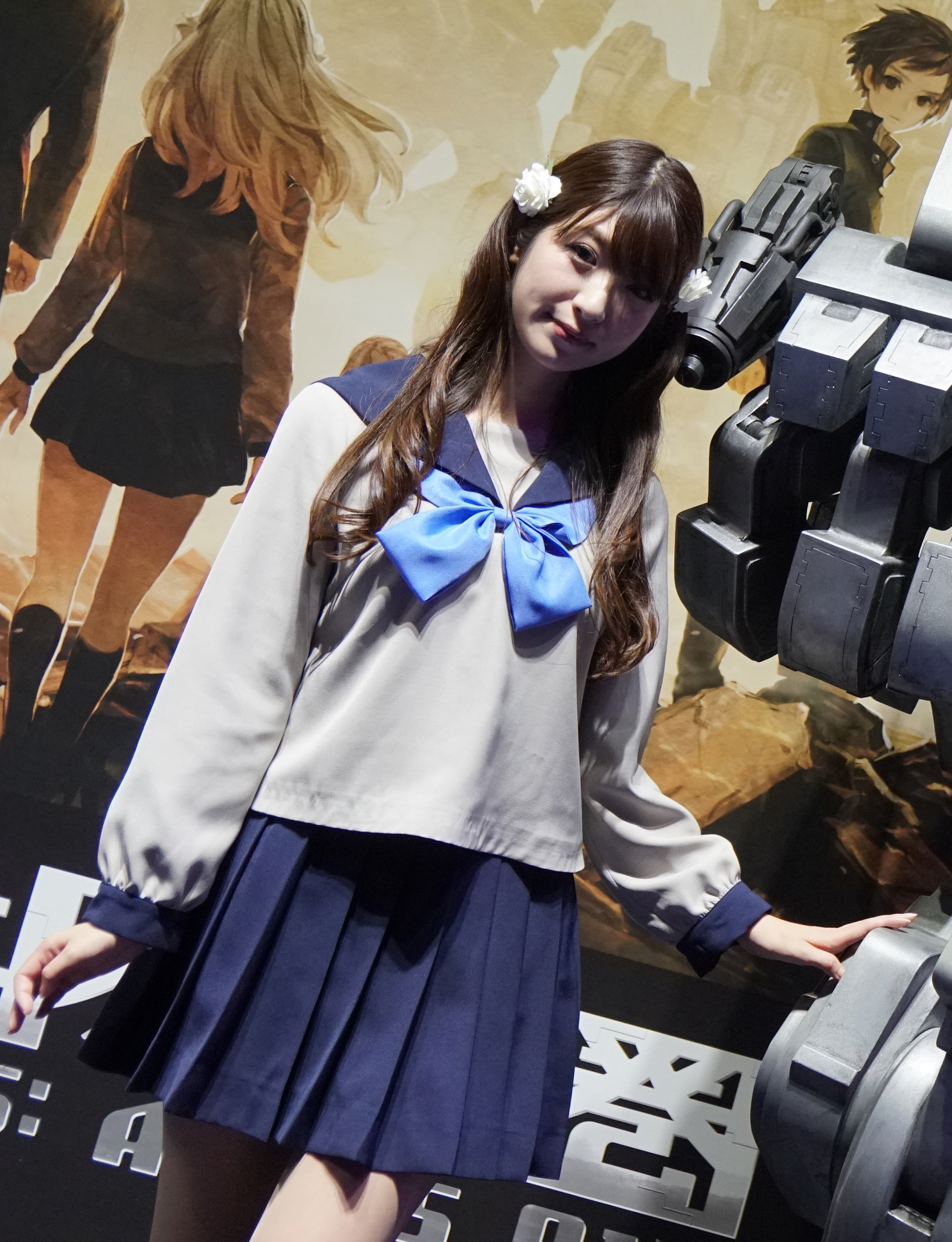 Tokyo Game Show (3)